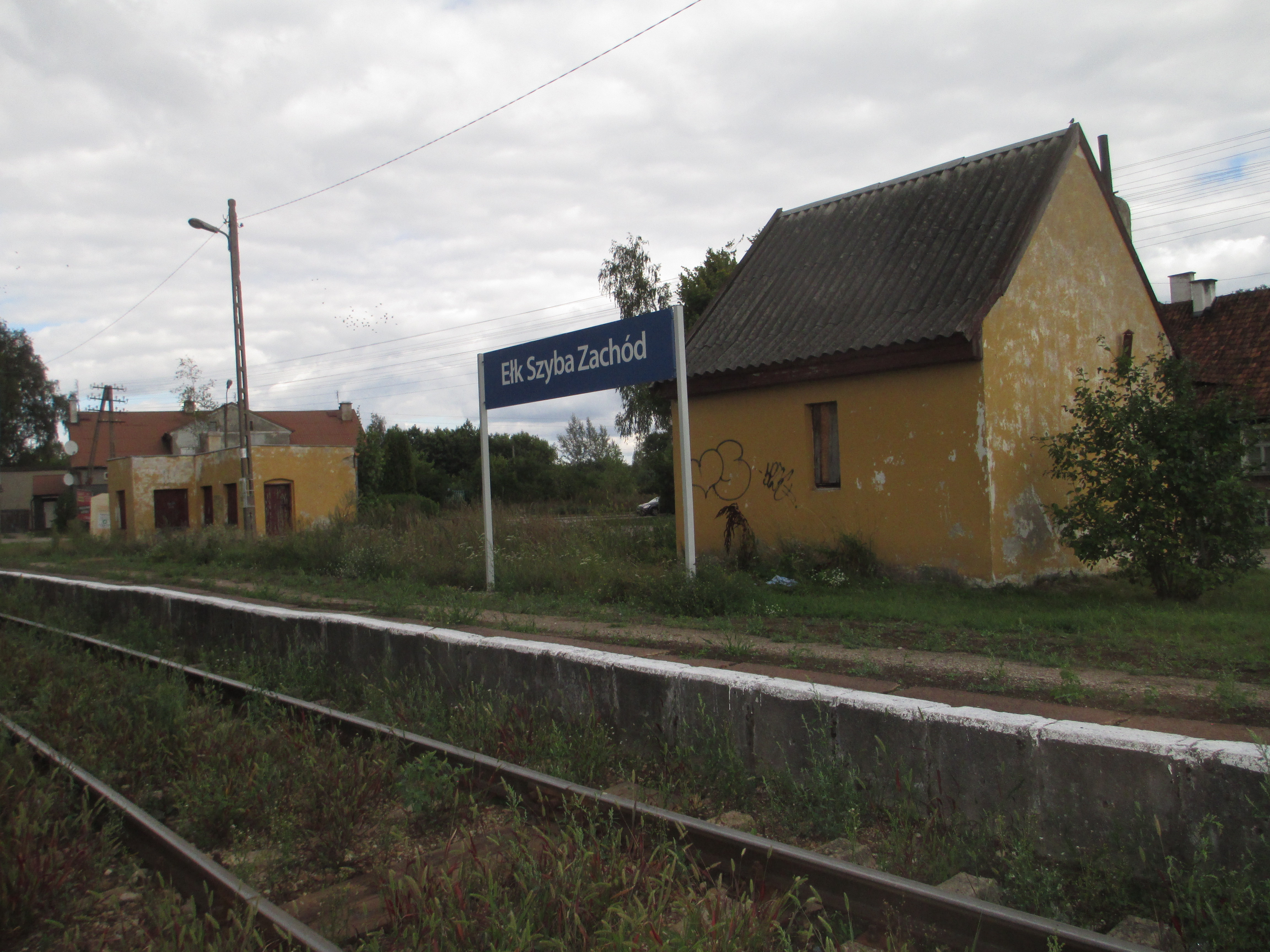 Ełk Szyba Zachód